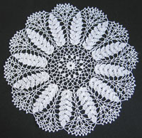 Photograph by Kathy A. Graff Details of construction and source of pattern: The representation of ears of ripe wheat is especially appropriate for a table linen.